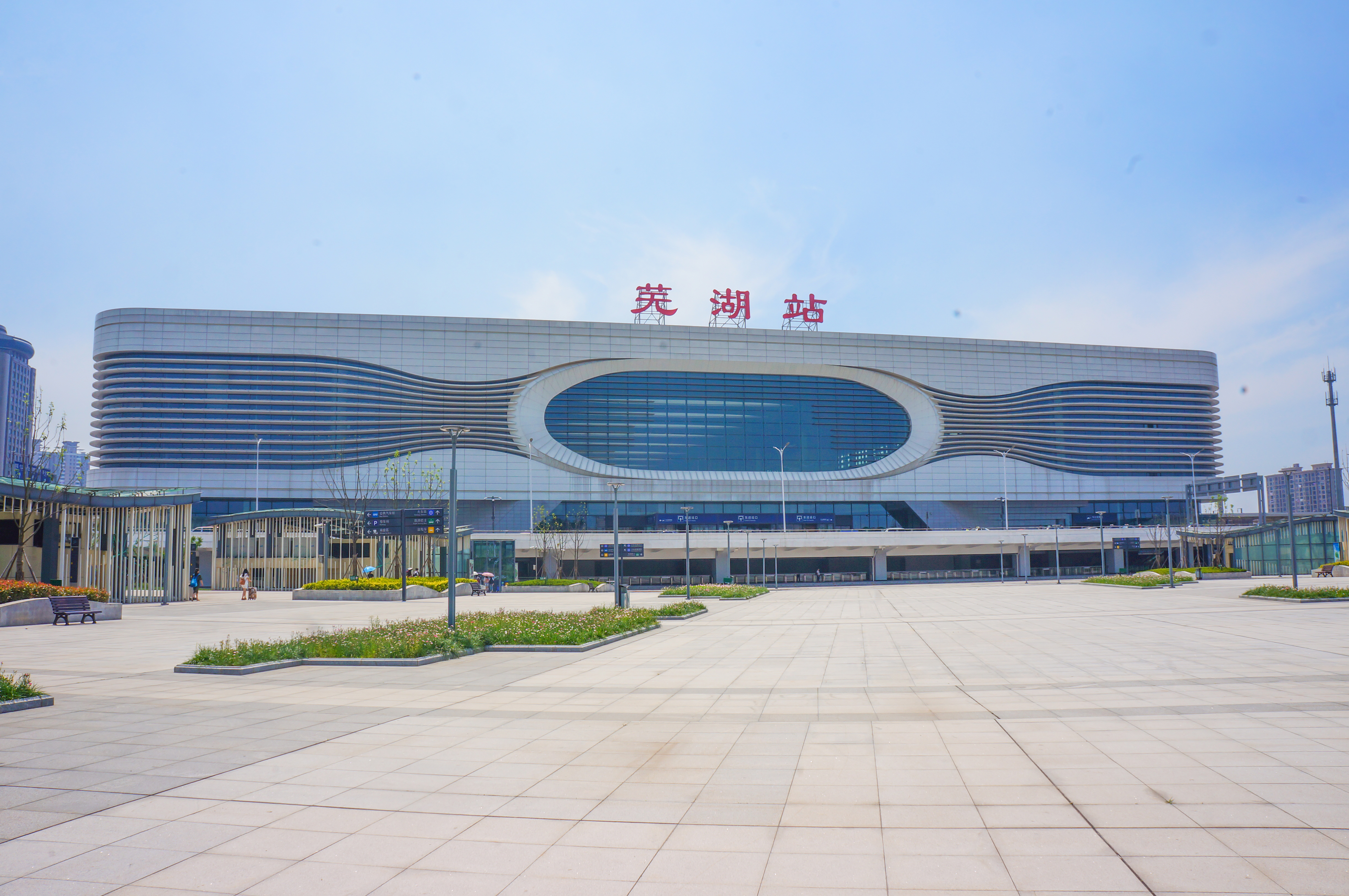 201705 Facade of Wuhu Railway Station